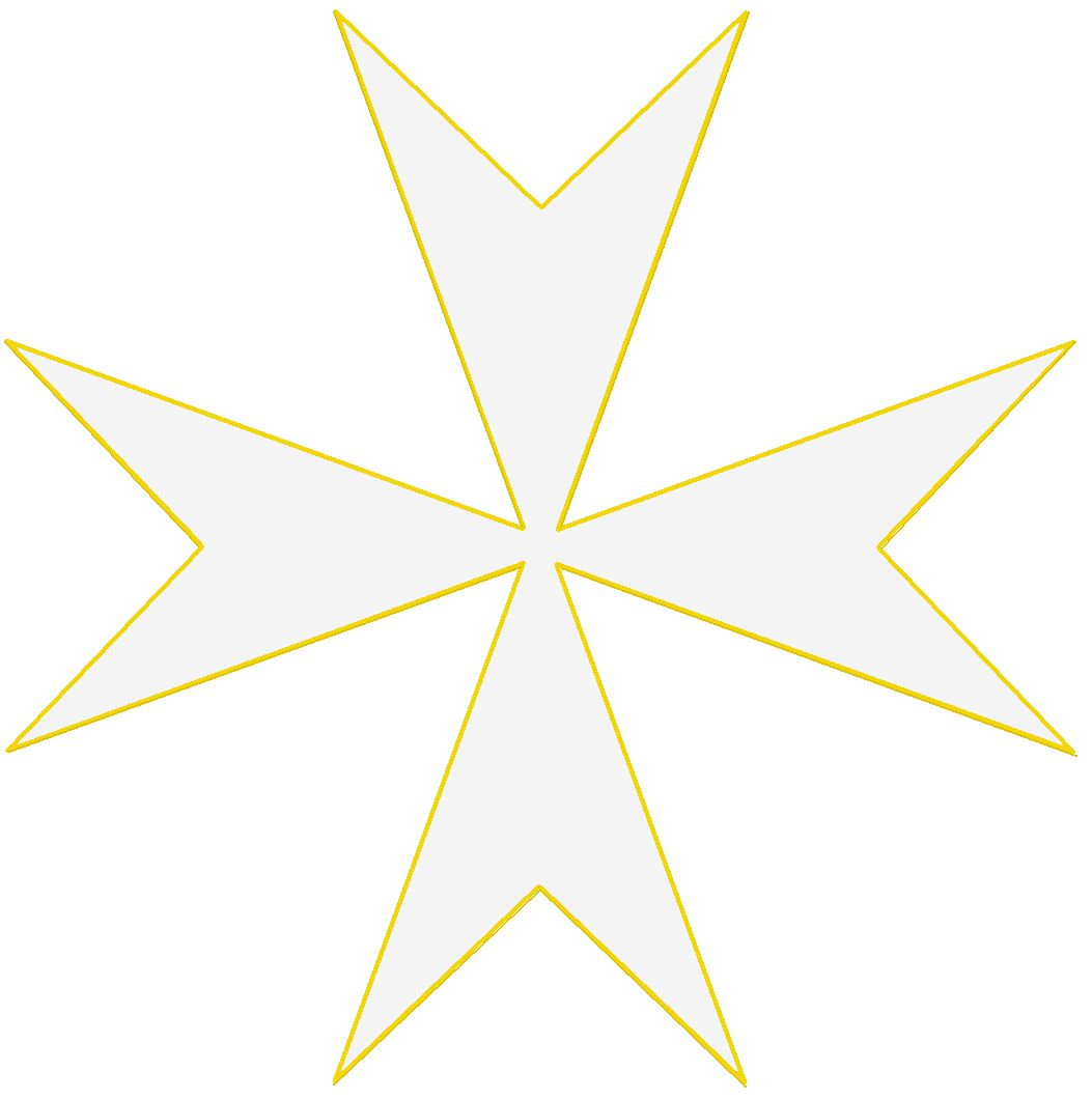 My own drawning July 2007 Robert Prummel 15:18, 19 July 2007 (UTC)